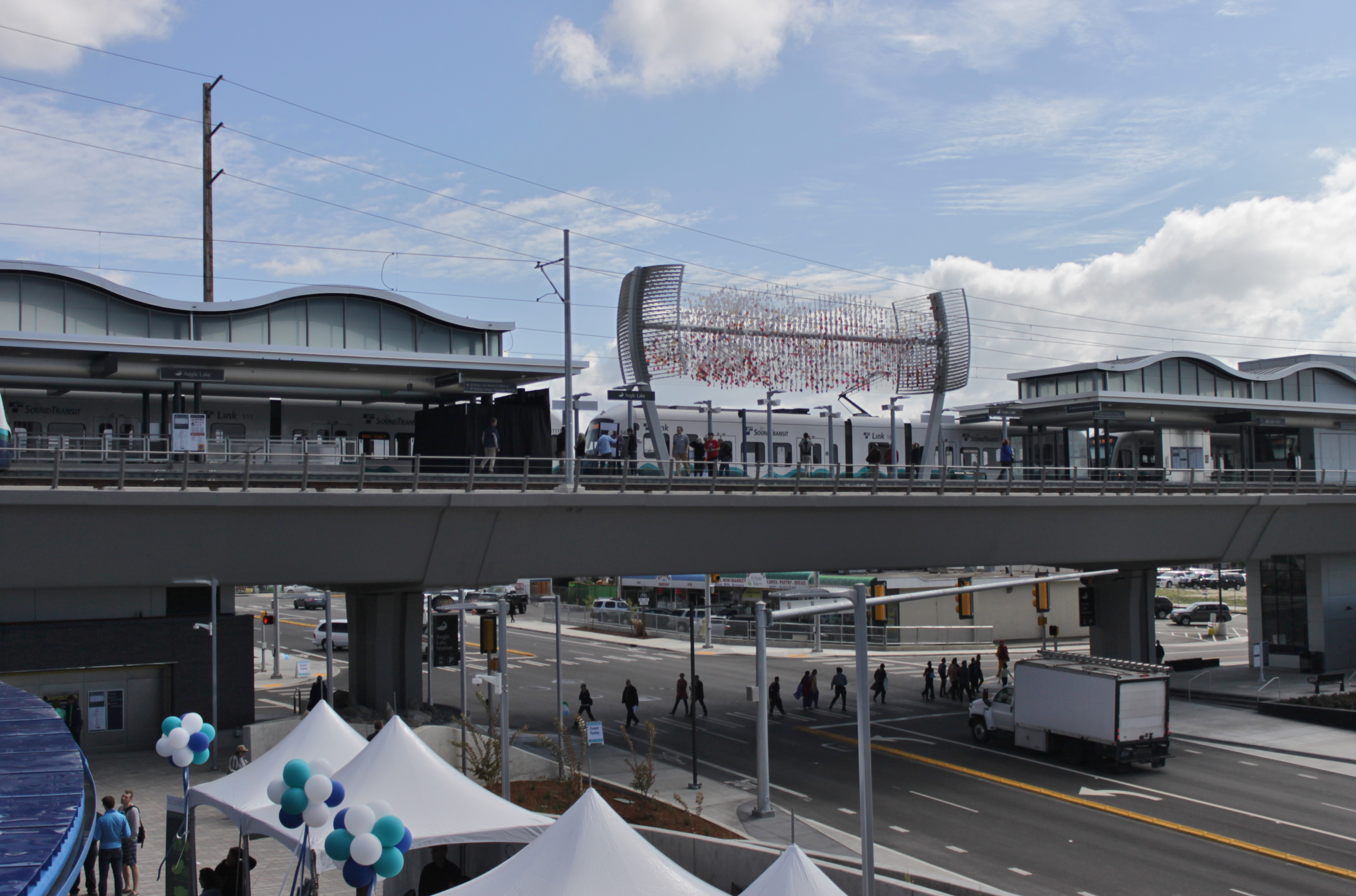 Angle Lake station in SeaTac, Washington, on its opening day, viewed from the parking garage.